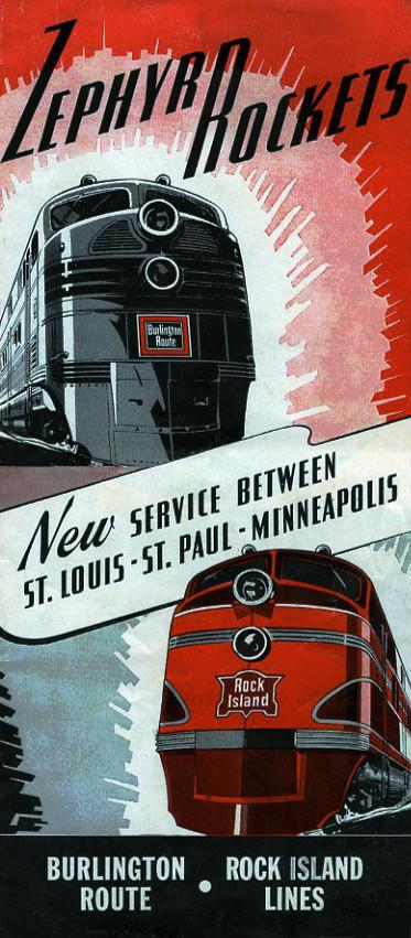 Front of timetable/brochure for the jointly operated Zephyr Rockets. The Chicago, Burlington and Quincy and Rock Island Railroads operated this route between St. Louis and Minneapolis/St. Paul from January 7, 1941 until 1967.